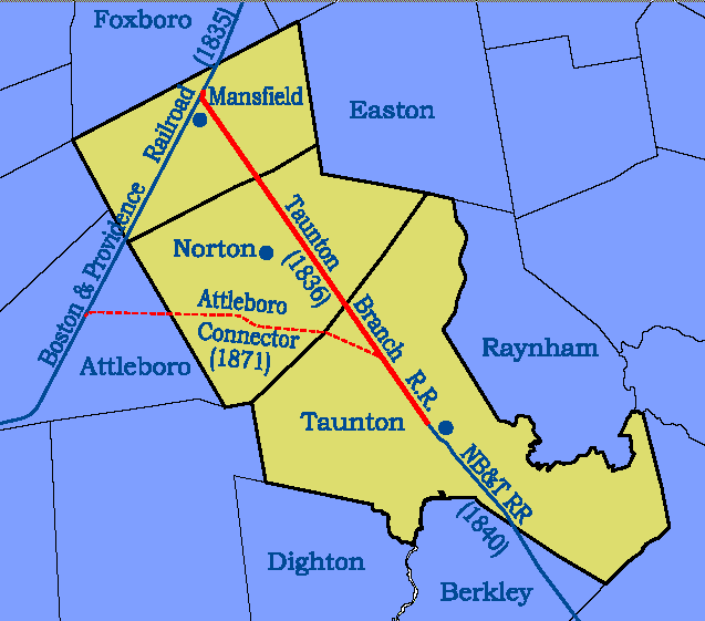 Route of the Taunton Branch Railroad (1836), Taunton, Massachusetts to Mansfield.